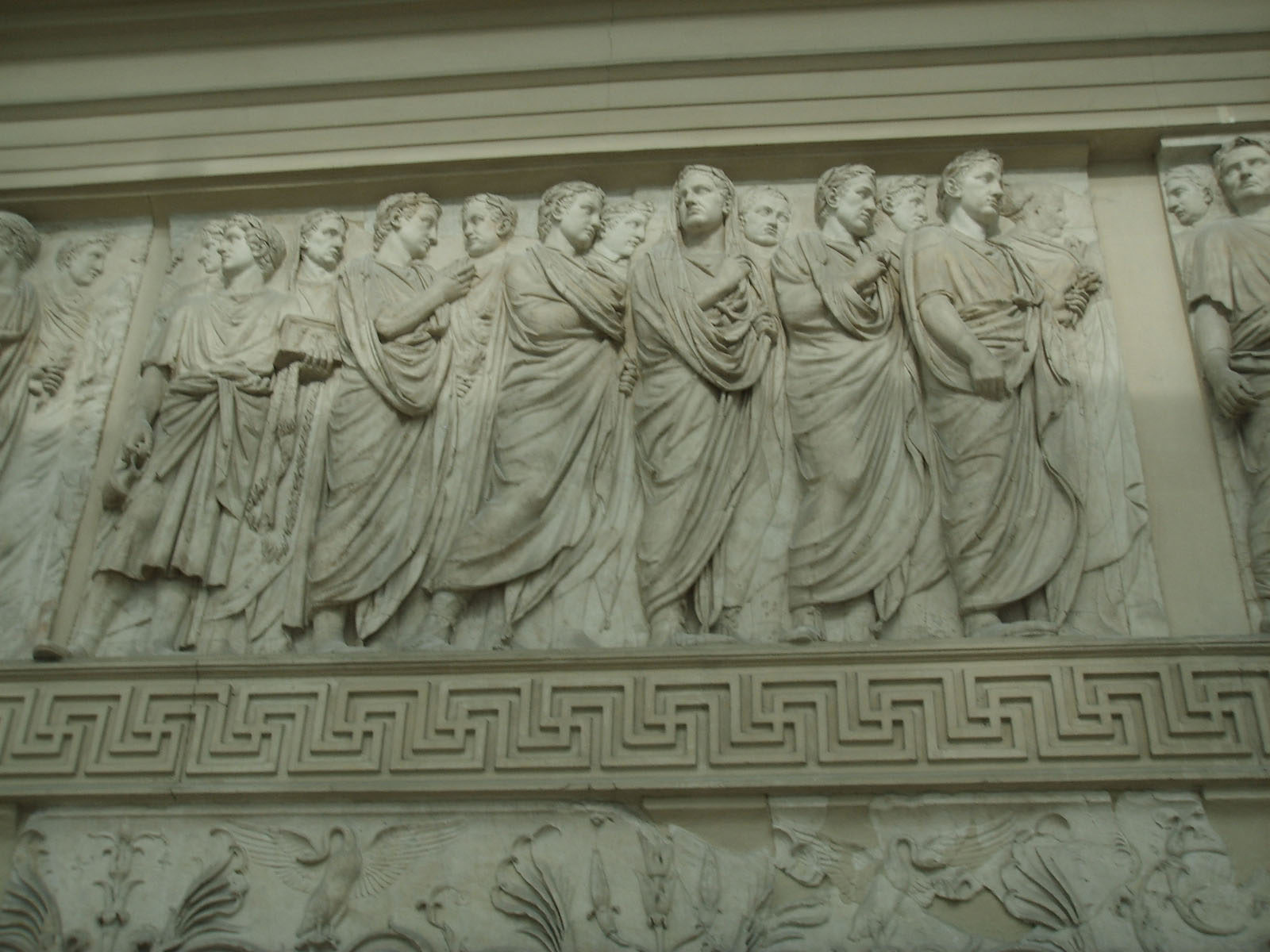 Ara Pacis, east side 2 in Rome, Italy